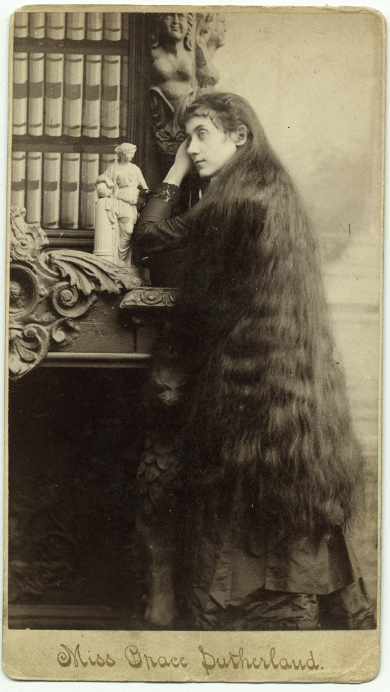 Miss Grace Sutherland from about 1890. She was one of the singing Sutherland sisters, a group of singing ladies from Lockport/ Niagara, N.Y., that were famous for their very long hair